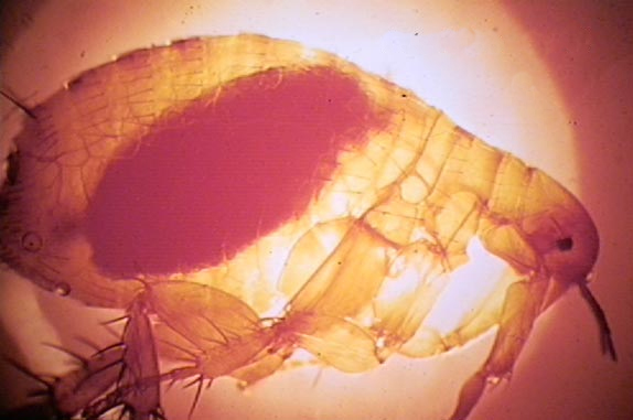 Male Xenopsylla cheopis (oriental rat flea) engorged with blood. This flea is the primary vector of plague in most large plague epidemics in Asia, Africa, and South America. Both male and female fleas can transmit the infection.